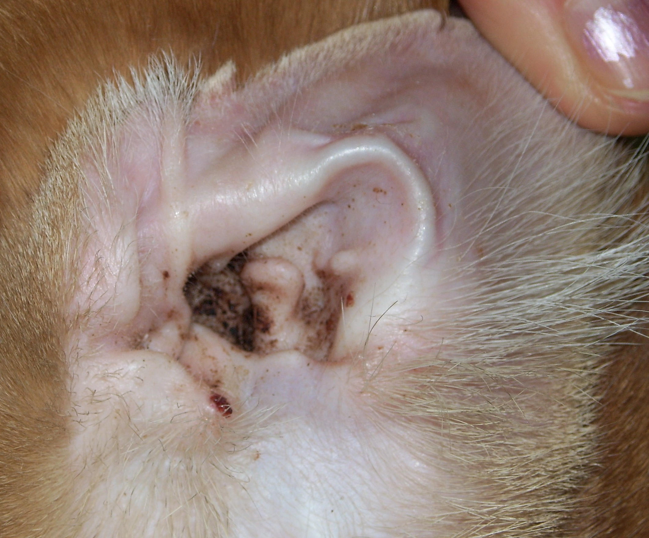 ear mite infection of a cat